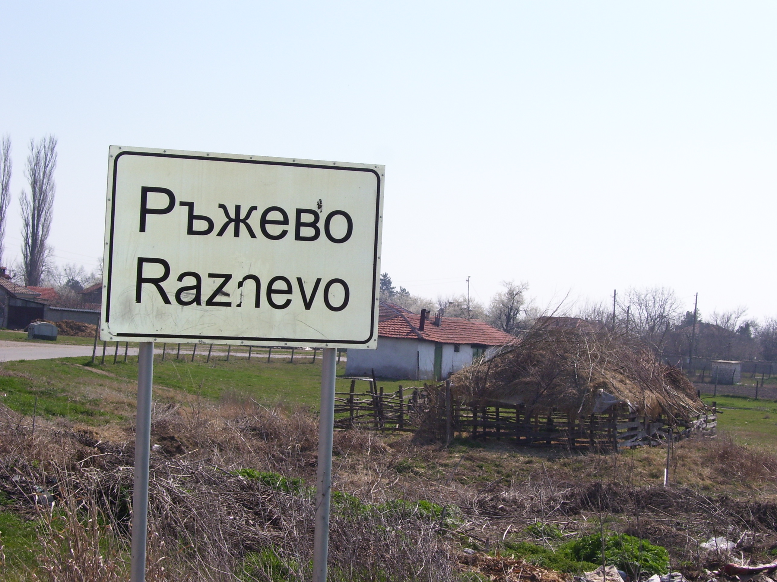 Entrance to the village of Razhevo, Plovdiv Province, Bulgaria